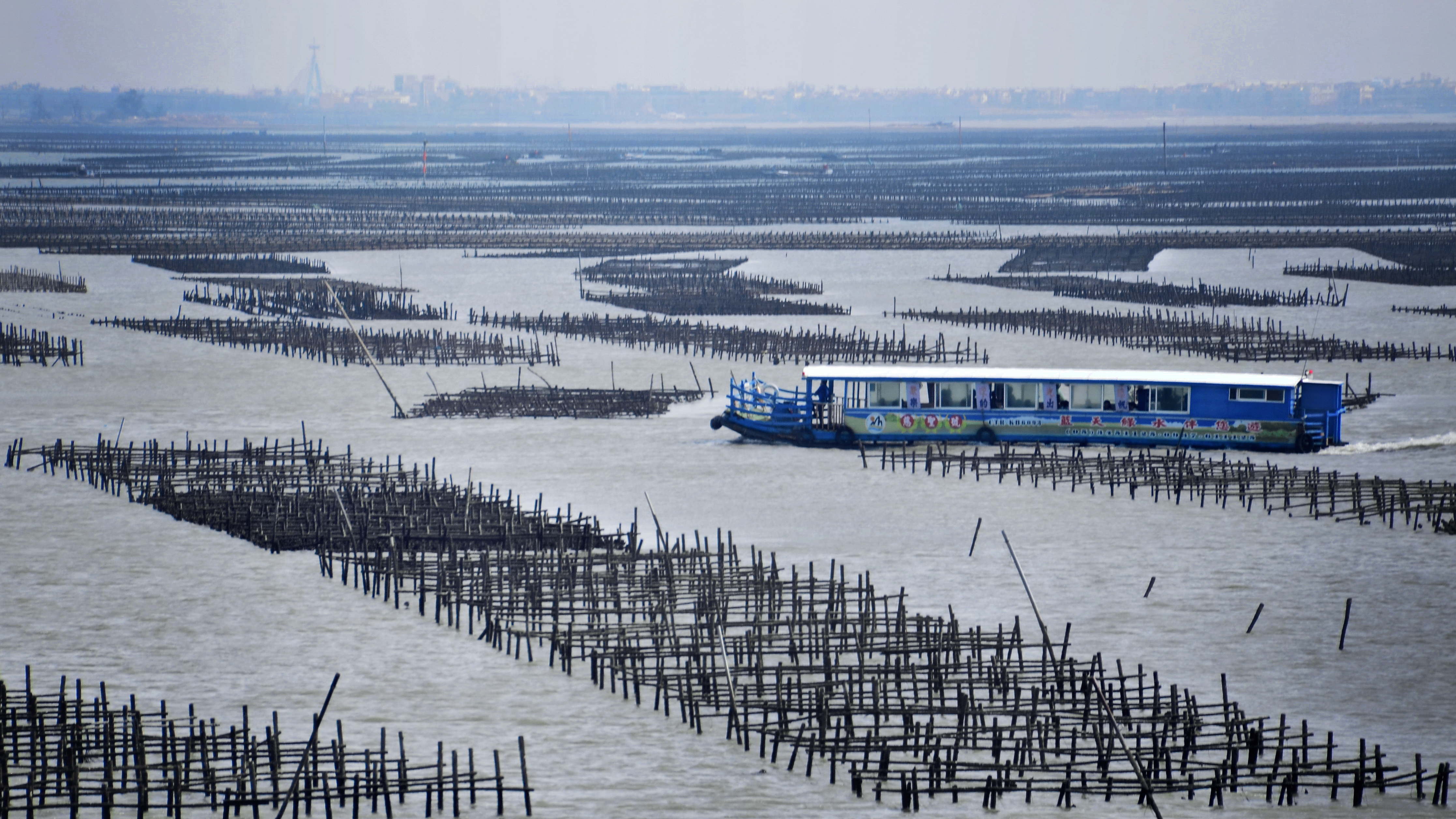 Oyster Trellis at Dongshi fishing habour, Chiayi County, Taiwan.